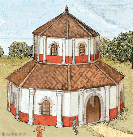 Drawing by Gary Malkin (with historical advice from Anthony Beeson)